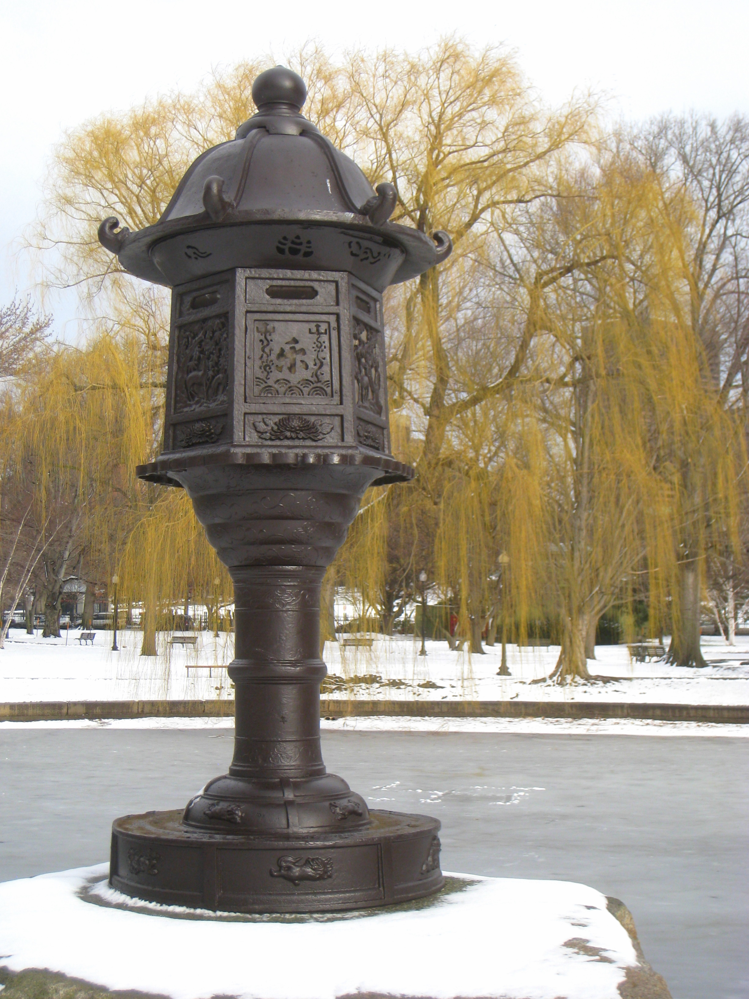 Winter scene in the Public Garden, Boston, Massachusetts, USA.